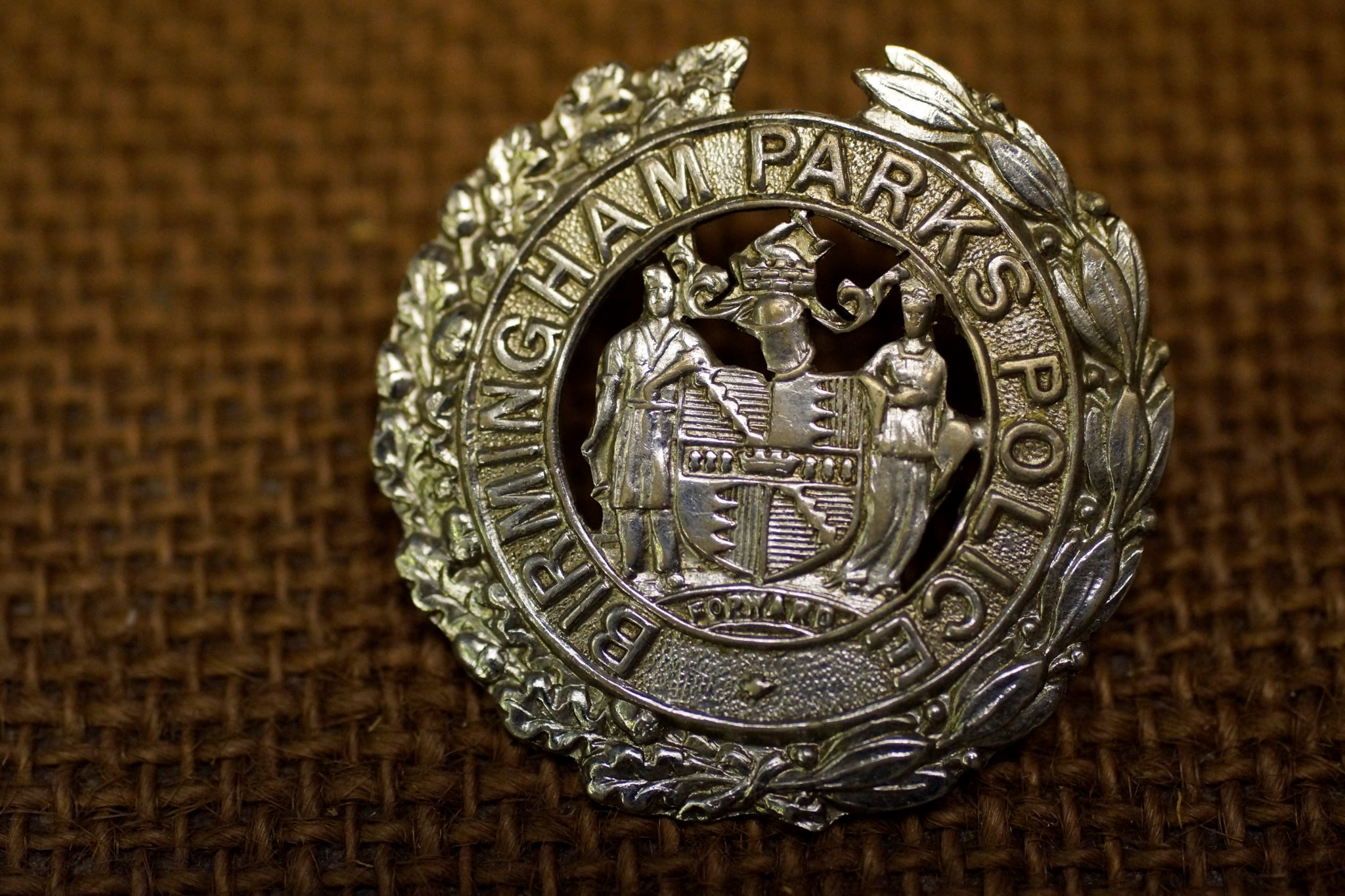 West Midlands Police Museum